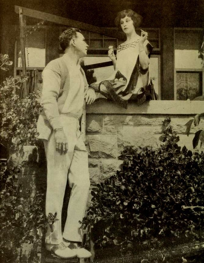 Actor Bernard Durning and his wife actress Shirley Mason, on page 70 of the February 1922 Photoplay.